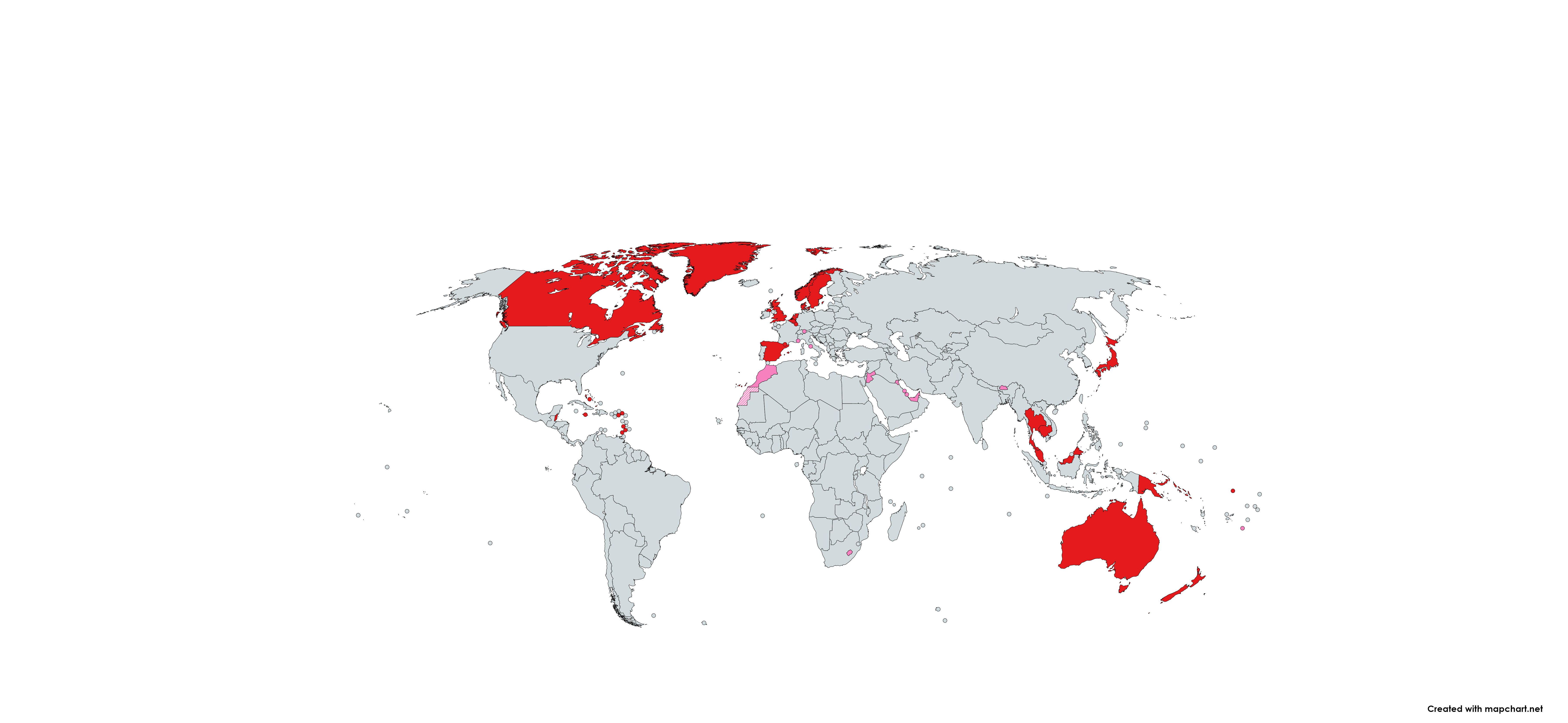 World's constitutional monarchies coloured by form of government as of 2007